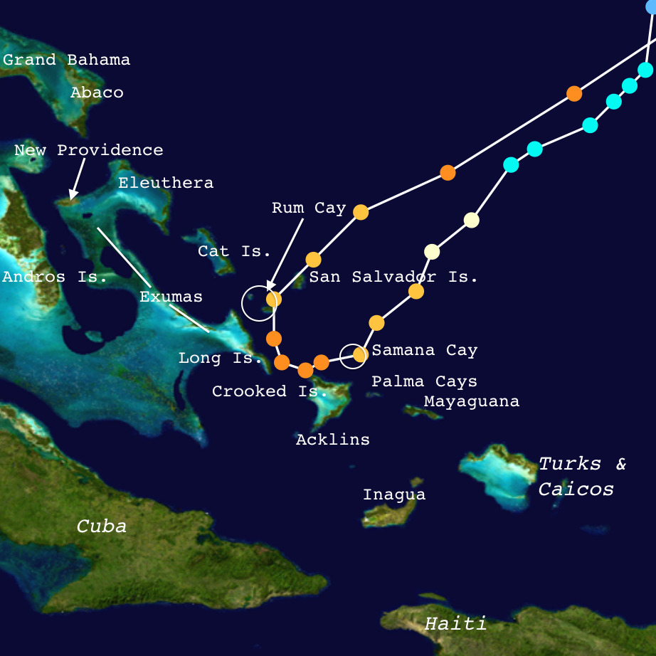 Track map of Hurricane Joaquin of the 2015 Atlantic hurricane season. The points show the location of the storm at 6-hour intervals. The colour represents the storm's maximum sustained wind speeds as classified in the Saffir–Simpson hurricane wind scale (see below), and the shape of the data points represent the nature of the storm, according to the legend below. Saffir–Simpson hurricane wind scale Tropical depression≤38 mph≤62 km/h Category 3111–129 mph178–208 km/h Tropical storm39–73 mph63–118 km/h Category 4130–156 mph209–251 km/h Category 174–95 mph119–153 km/h Category 5≥157 mph≥252 km/h Category 296–110 mph154–177 km/h Unknown Storm typeTropical cycloneSubtropical cycloneExtratropical cyclone / Remnant low / Tropical disturbance